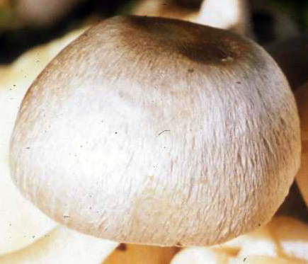 The cap of a fruit body of the mycoparasitic fungus Volvariella surrecta (Knapp) Singer. Image cropped and levels adjusted by uploader.